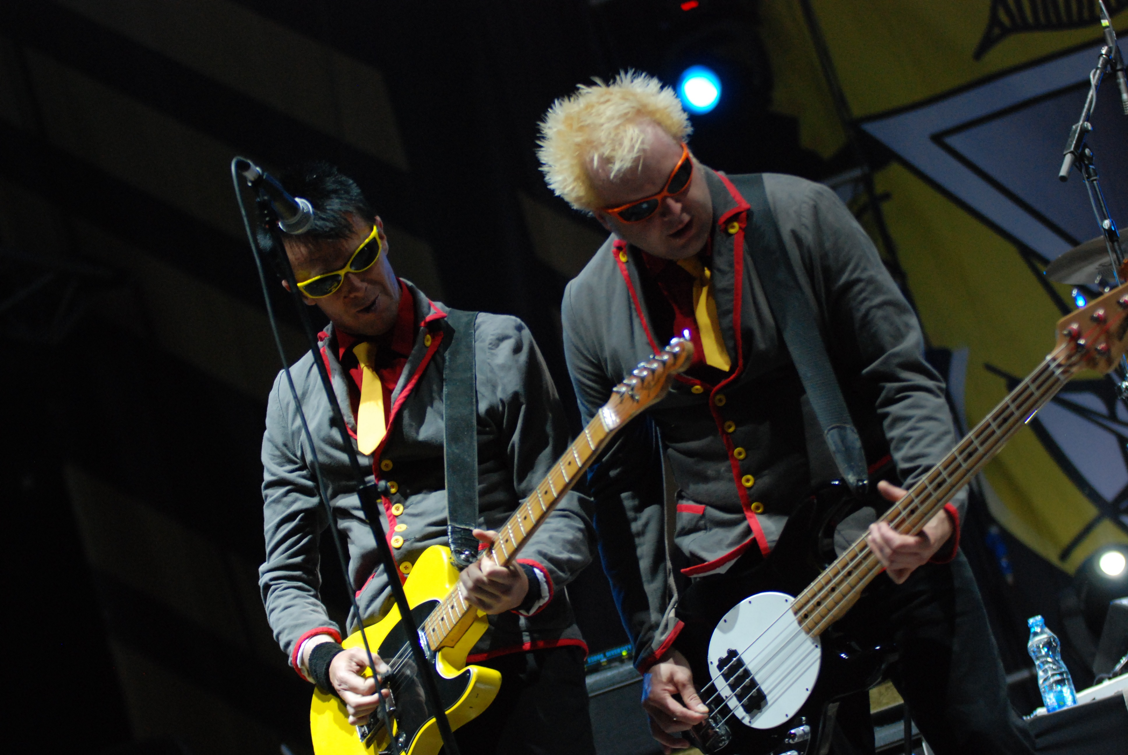 The Toy Dolls, EXIT 2012.